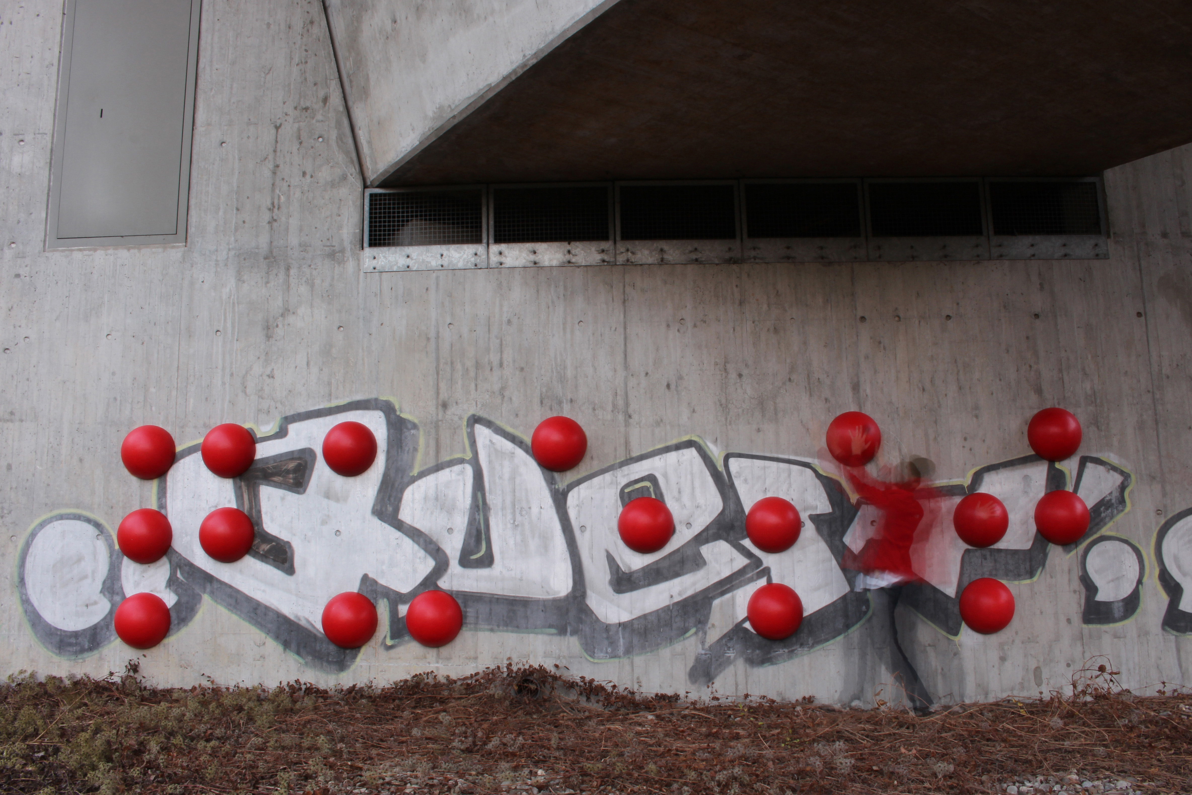 Translating graffiti into braille – in original size! An art project by Alexis Dworsky.